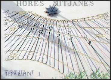 Excerpt and superposition of right sundials in Image:Sunclockllrp.jpg in order to show analemma curve. Creator: Anton (2005)